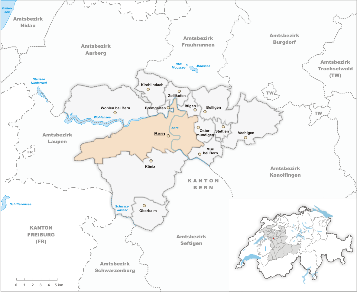 Municipality Bern